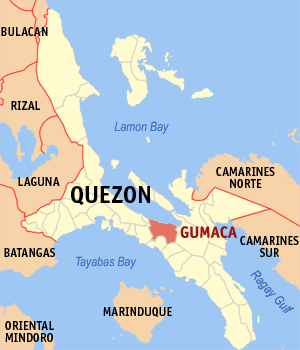 Map of Quezon showing the location of Gumaca